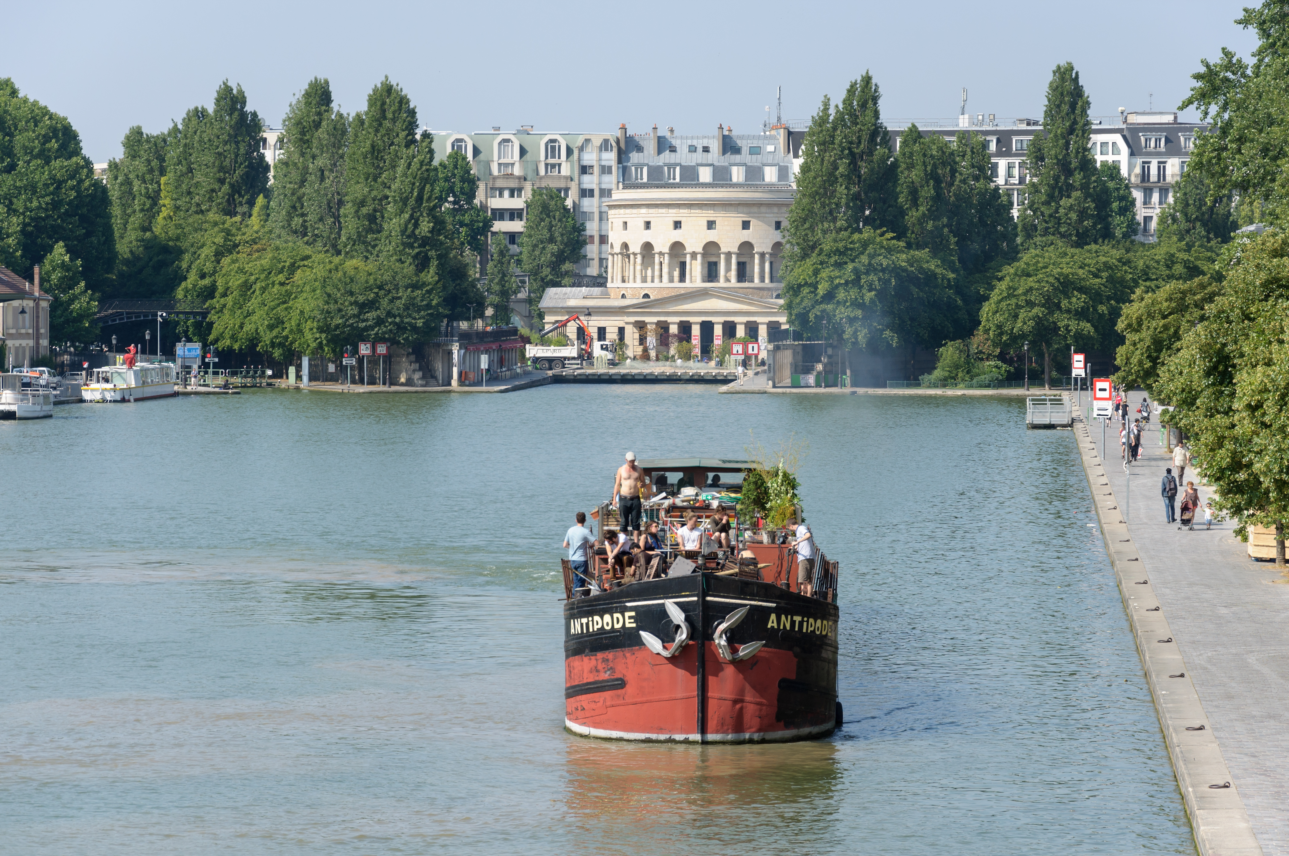 Barge in the bassin de la Villette with the Rotonde de la Villette in the background, in Paris, France.